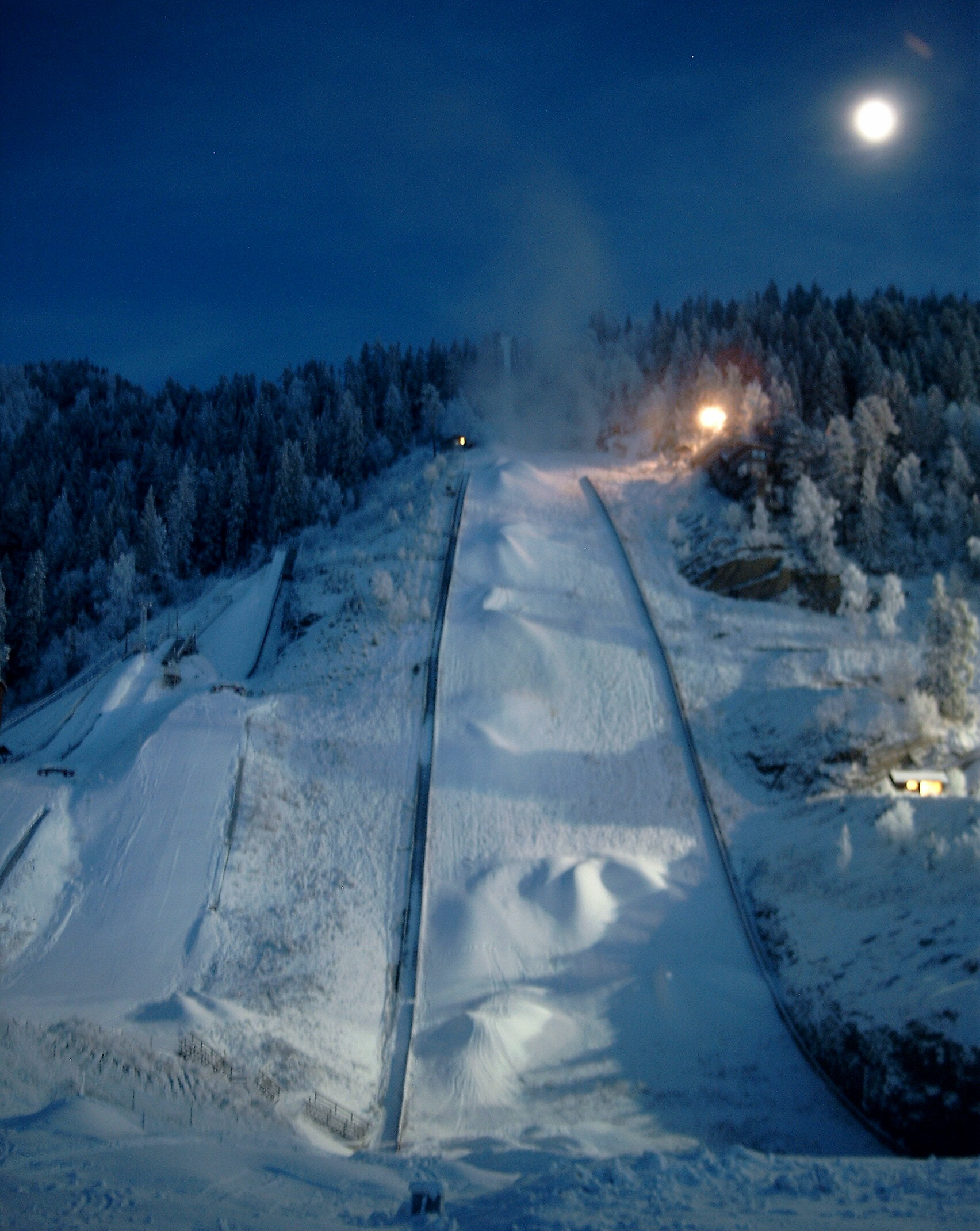 Vikersundbakken during fullmoon - when in 2016?